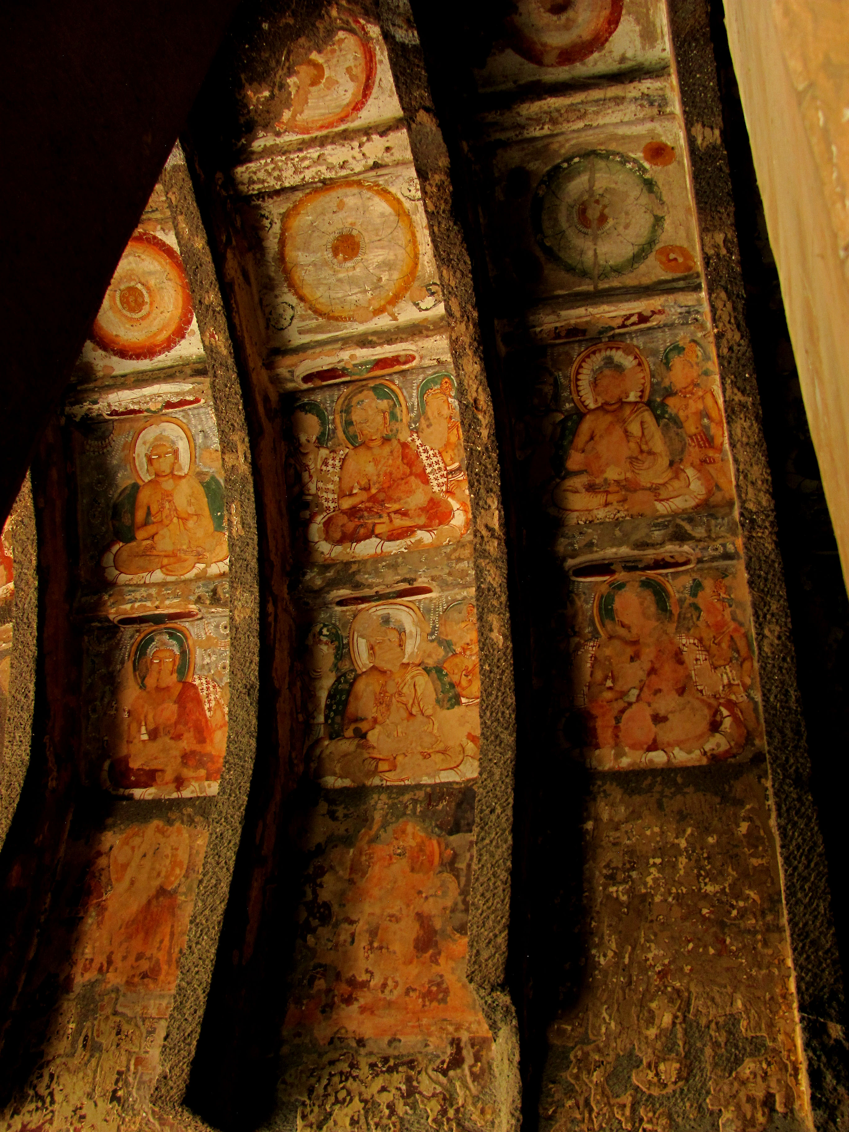 Surely our ancestors were much much expert in painting such a massive scale. A hearty bow down to them.